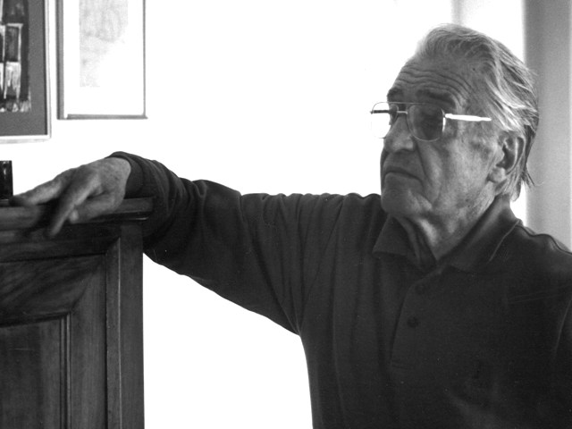 Pic of Eronda for his page